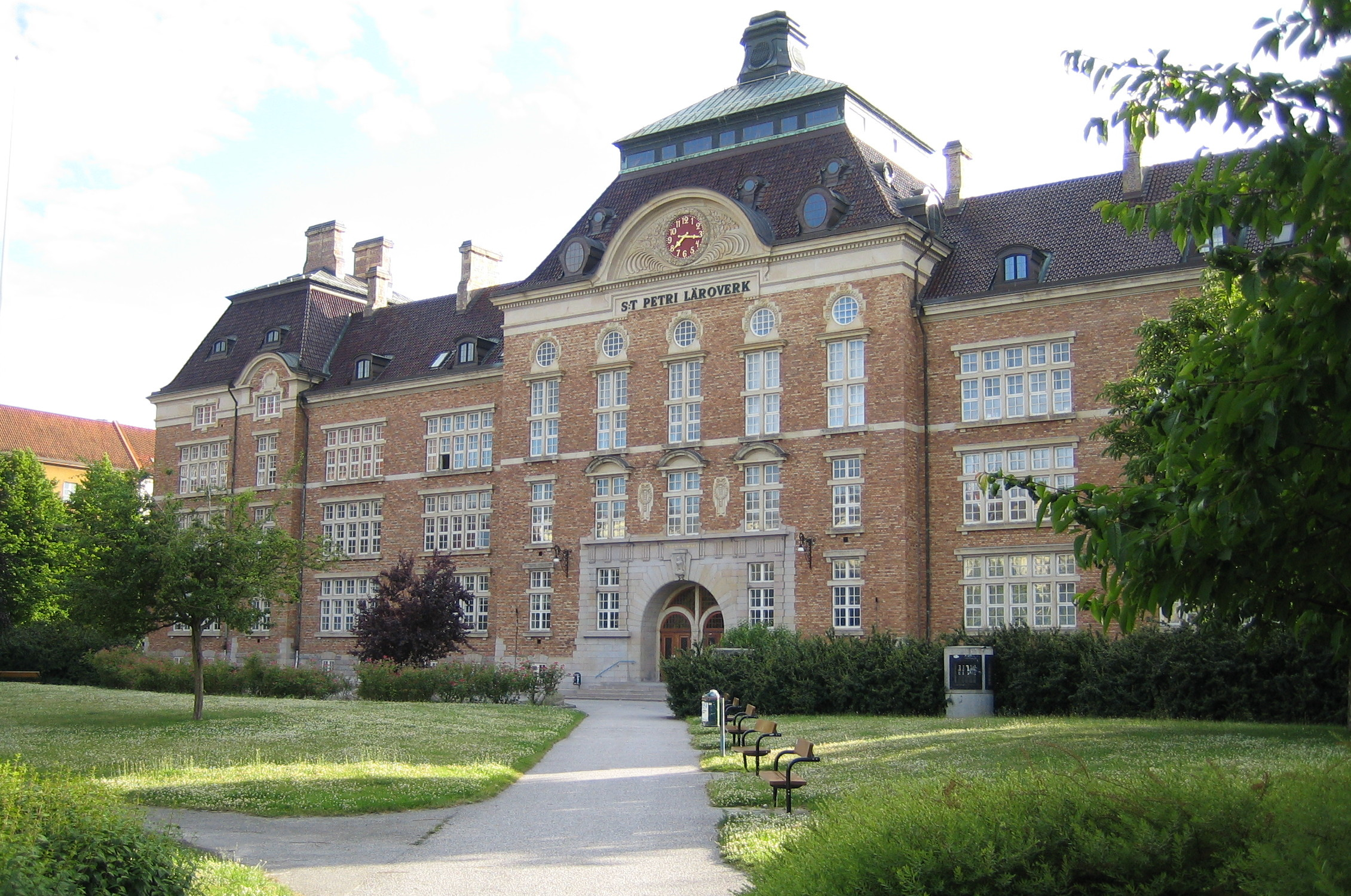 Saint Petrus's School in the city of Malmö.